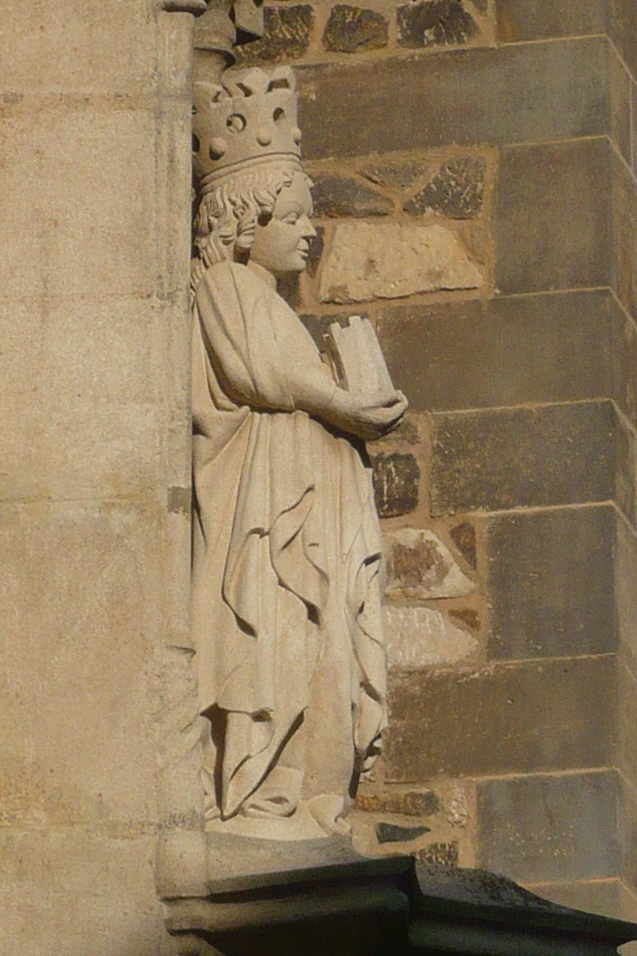 High gothic figure in St. Peter and Paul Cathedrale, Brno